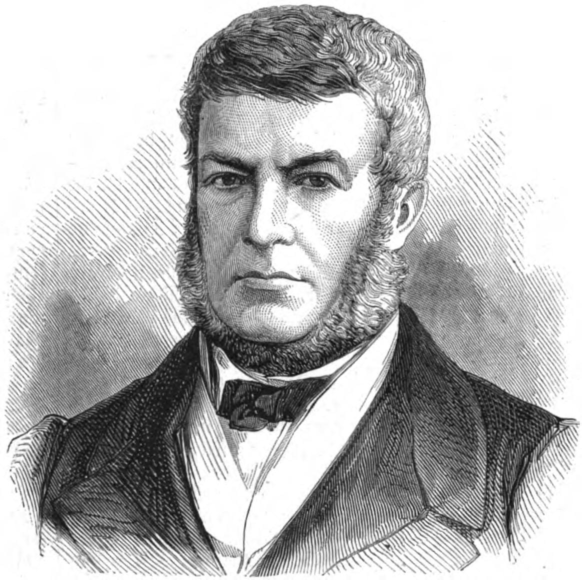 Wood-engraved portrait of Brazilian Admiral Joaquim Jose Inacio, Viscount of Inahuma. After a drawing by Maria Chenu, from L'Illustration, 1868.